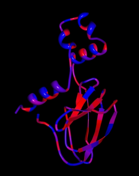 model of VHL protein with backbone recolored by hydrophobicity (red = most, blue = least hydrophobic). Data from Min, JH, Yang, H, Ivan, M, Gertler, F, Kaelin Jr, WG, Pavletich, NP. Structure of an HIF-1alpha-pVHL complex: hydroxyproline recognition in signaling. Science. 296, 5574, 1886-1889. 2002. PMID 12004076. (PDBid=1LM8), made using MBT Protein Workshop.